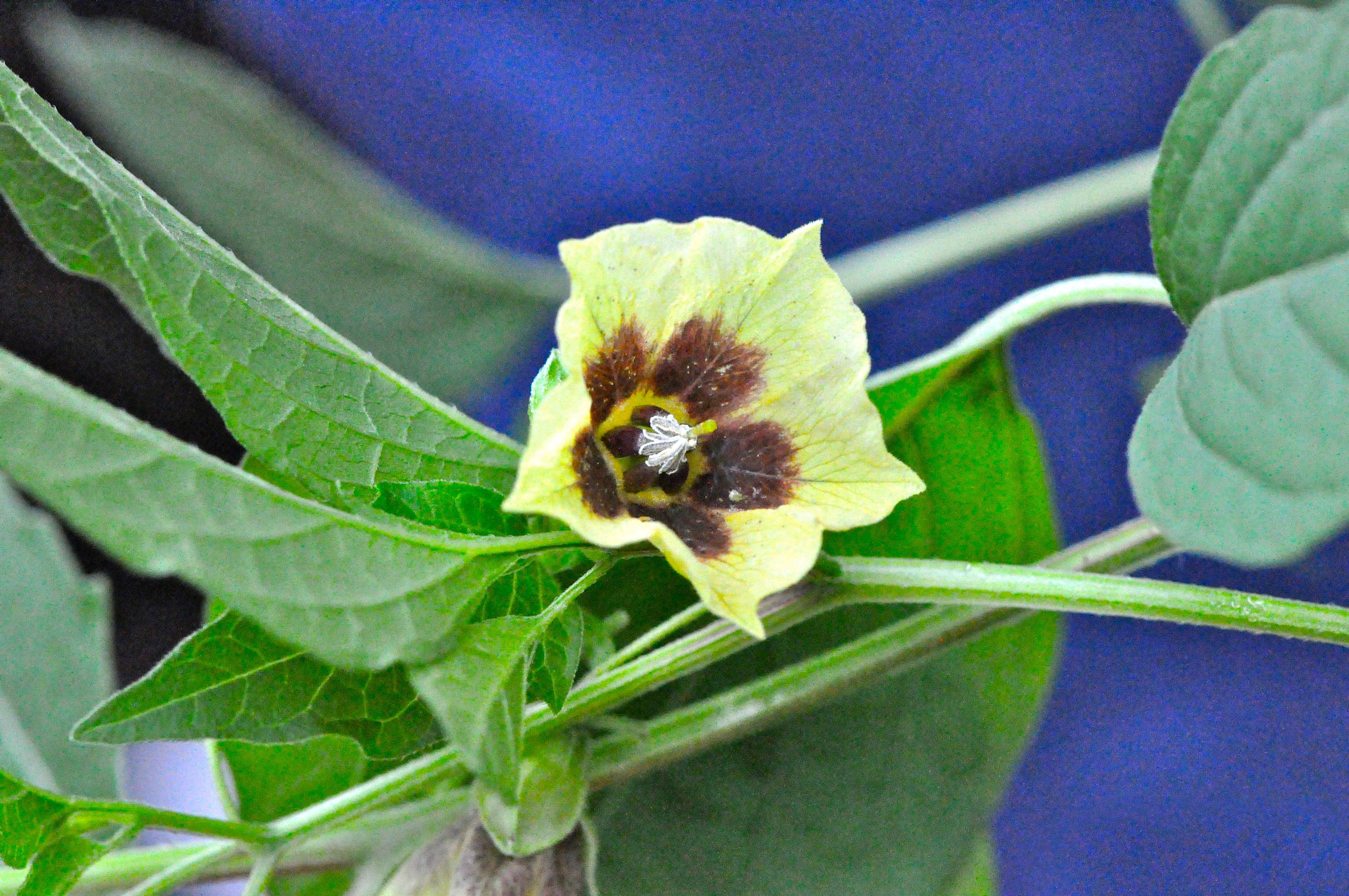 Physalis longifolia var. subglabrata (Mack. & Bush) Cronquist - smooth groundcherry flower, USA.